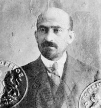 Chaim Weizmann's passport photo as a British subject. As a passport photo, the original image has been cropped and any signature of the studio/photographer (usually at the bottom margin either front or back) would have been lost. It is unlikely to know who the original photographer is, as the subject has been dead for more than 50 years and any one closely associated with the photographer would be too.